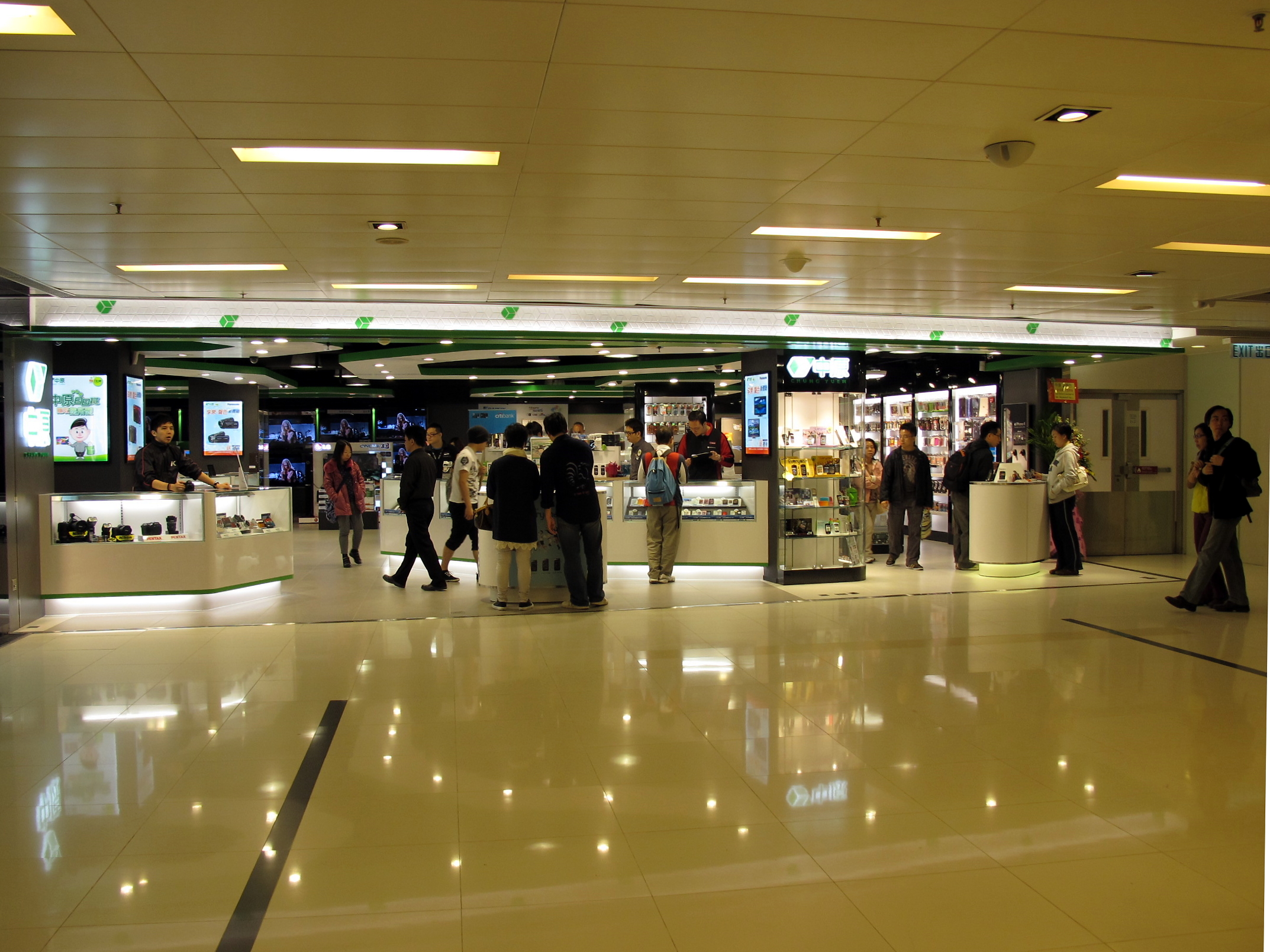 Chung Yuen Electrical in New Town Plaza